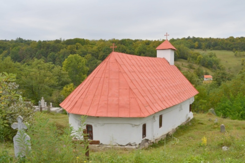 Wooden church in Sfodea, Mehedinți county, Romania